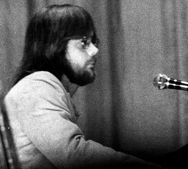 Blues pianist Ken Saydak in Paris, France